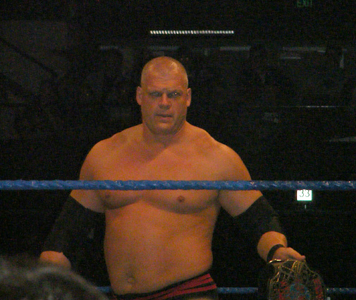 Kane @ Adelaide, South Australia 'Smackdown/ECW' house show on the 14th of June '08